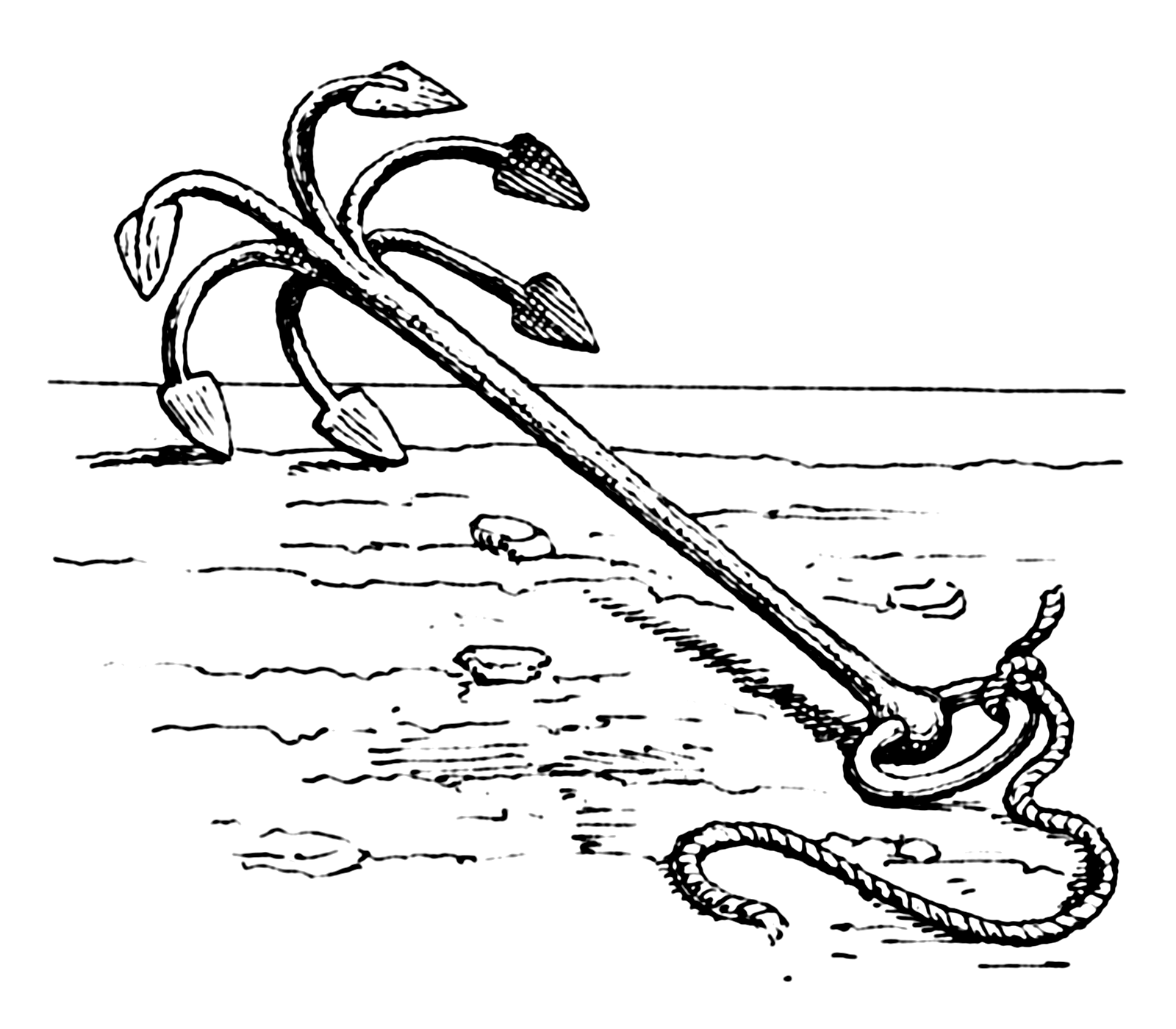 Line-art drawing of a grappling hook.